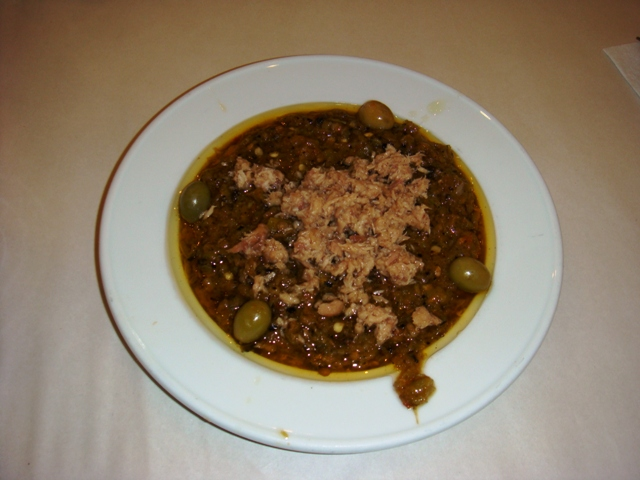 Tunisian meshouia salad